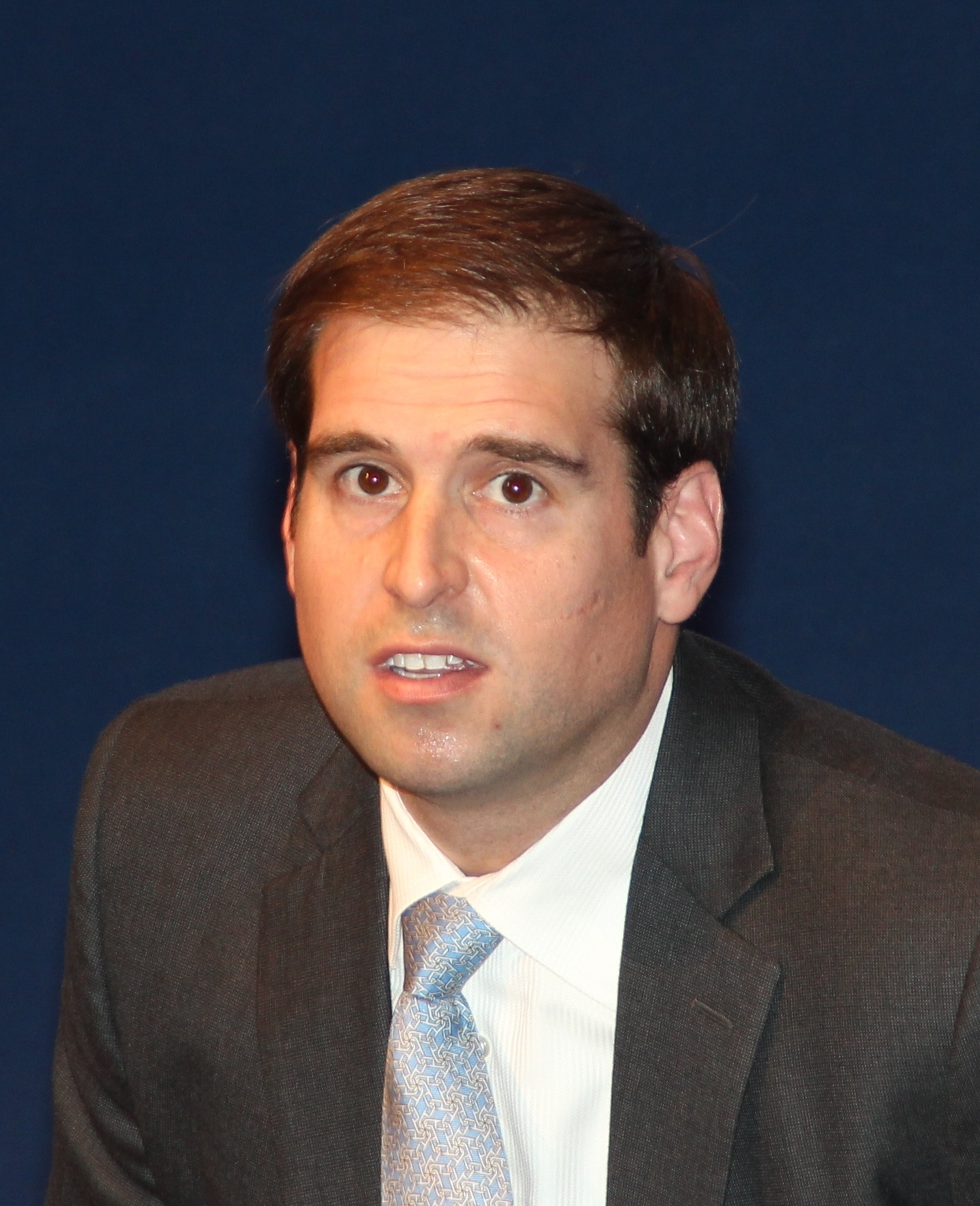 Jeffrey B. Straubel, member of the founding team and Chief Technical Officer of Tesla Motors